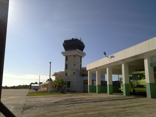 Barahona airport fire place. This place is part of the north area, still needs more fare trucks and ambulance.